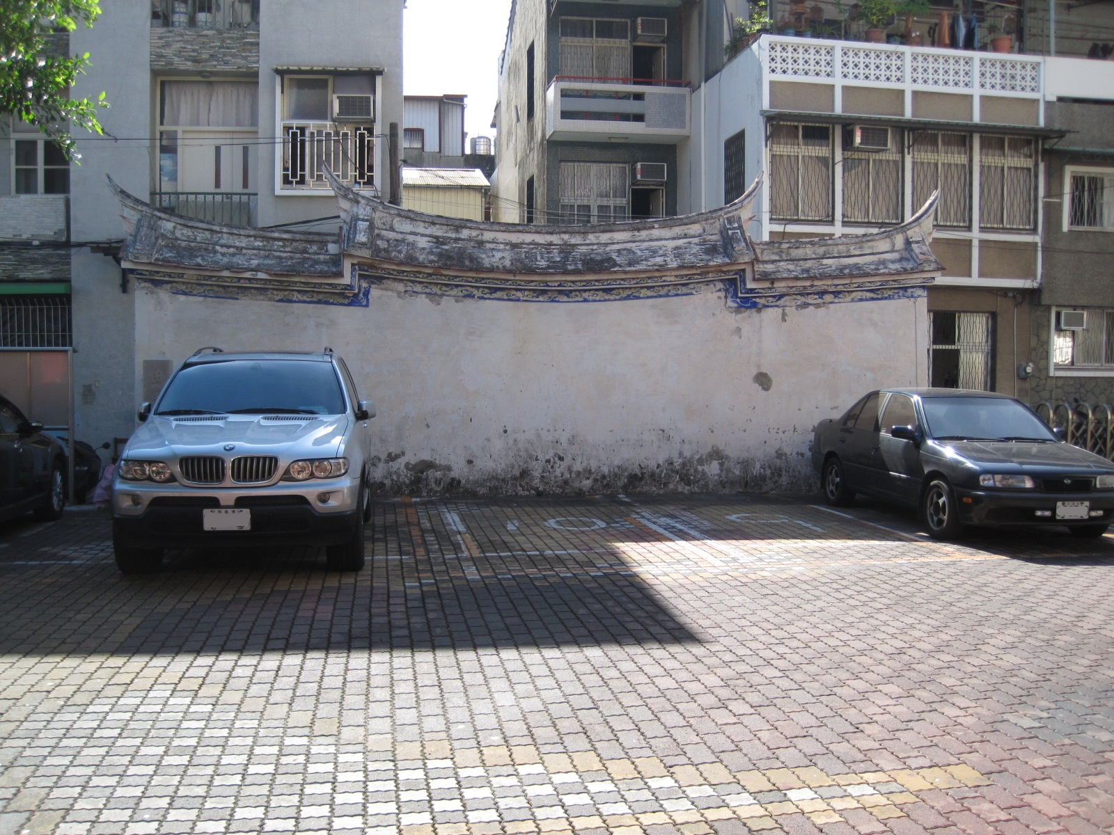 Screen Wall of Wan-Fu An